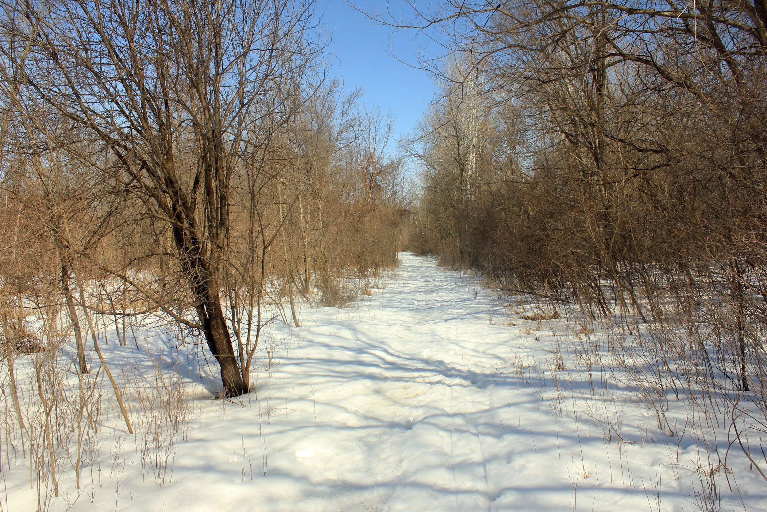 Minnesota Valley is a state recreation area with many trails and points along the Minnesota River, which winds through the park. The park has a total area of al A hiking trail in the winter in Minnesota Valley. Bordered by trees